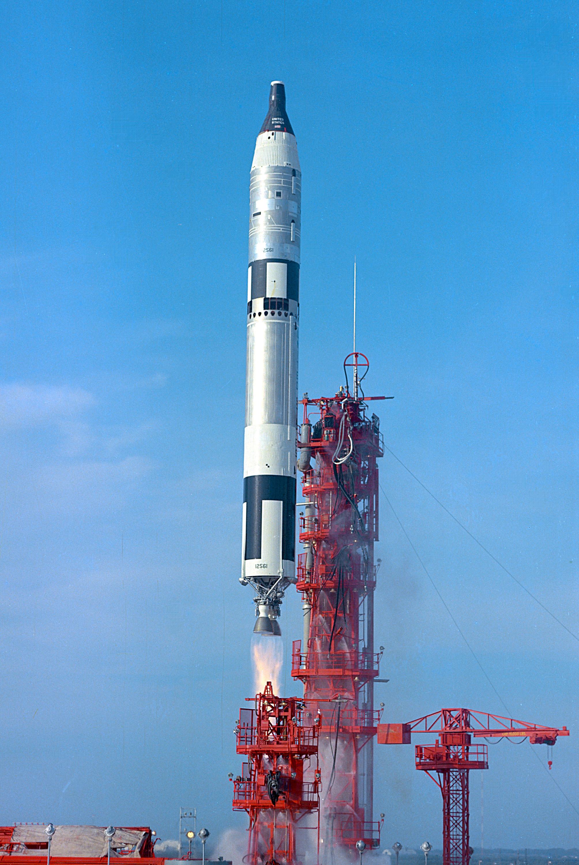 The Gemini VI, scheduled as a two-day mission, was launched December 15, 1965from Pad 19, carrying astronauts Walter M. Schirra Jr., Command Pilot, and Thomas P. Stafford, Pilot. Gemini VI rendezvoused with Gemini VII, already orbiting the Earth.